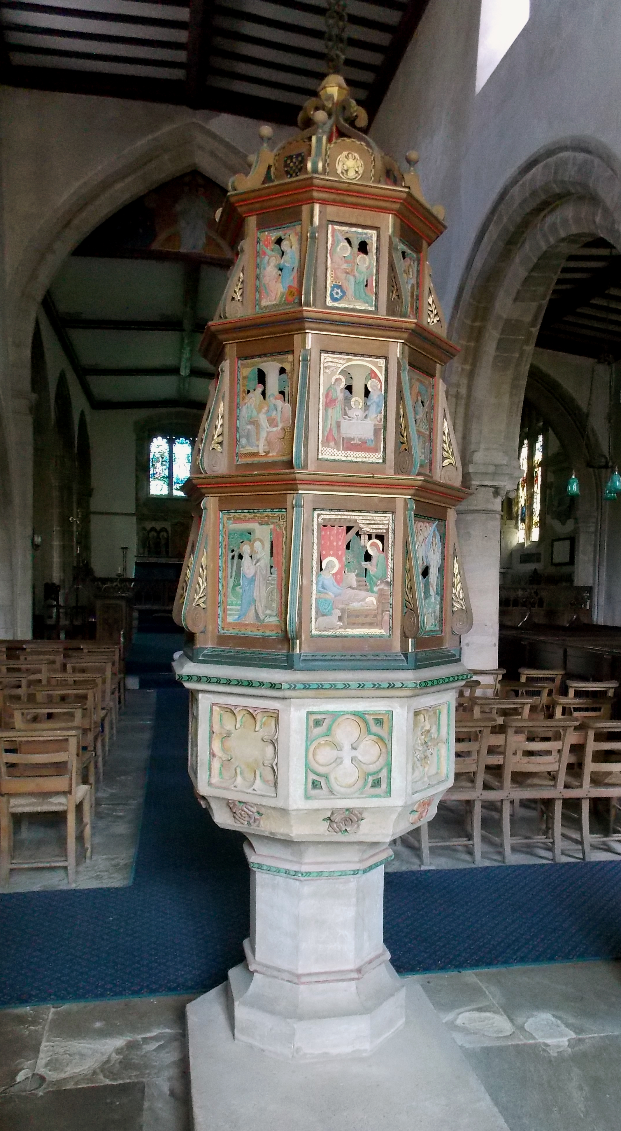 Ss Andrew & Mary, Stoke Rochford, interior - font